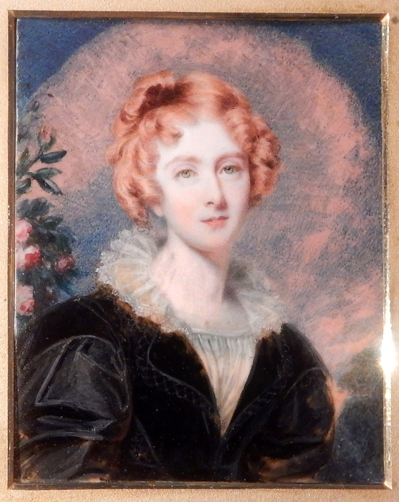 Miniature of Isabella Poyntz (1803-1879), wife of the 2nd Marquess, by Sir William John Newton (1785-1869), signed and dated 1830. She was daughter and heiress of William Stephen Poyntz of Cowdray, Sussex. She married Brownlow, 2nd Marquess of Exeter in 1824. The artist was appointed Miniature Painter to Queen Victoria on her accession in 1837 (Burghley House collection).